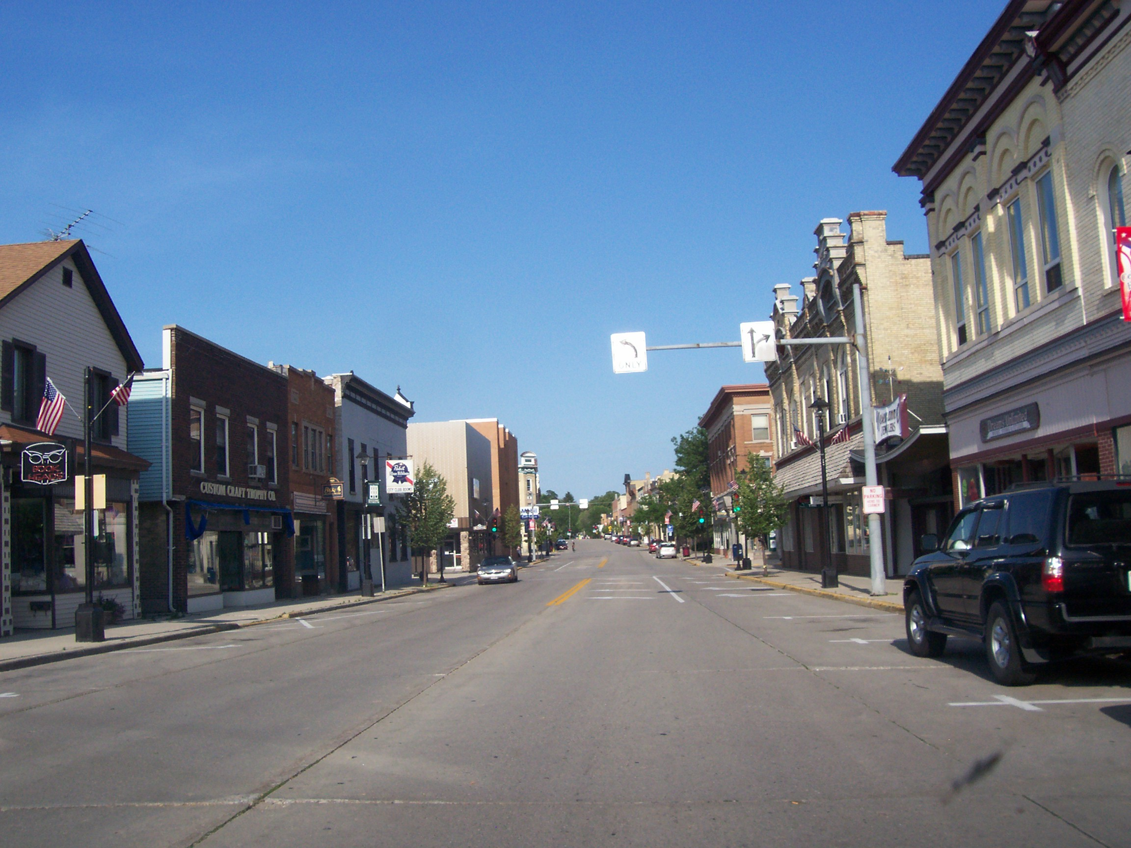 Downtown Plymouth, Wisconsin. Hotel Laack is the second building from the front on the right.